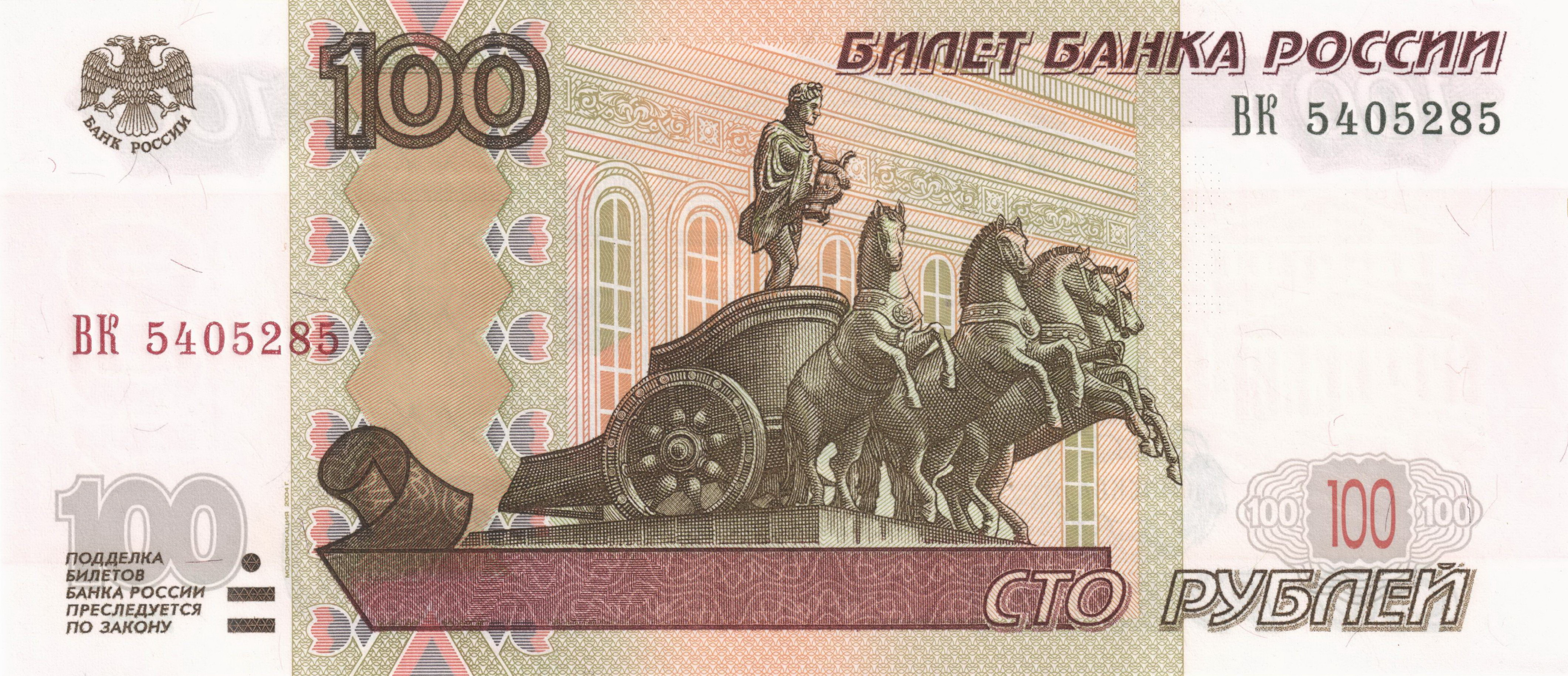 100 Russian Rubles, modified of 2004